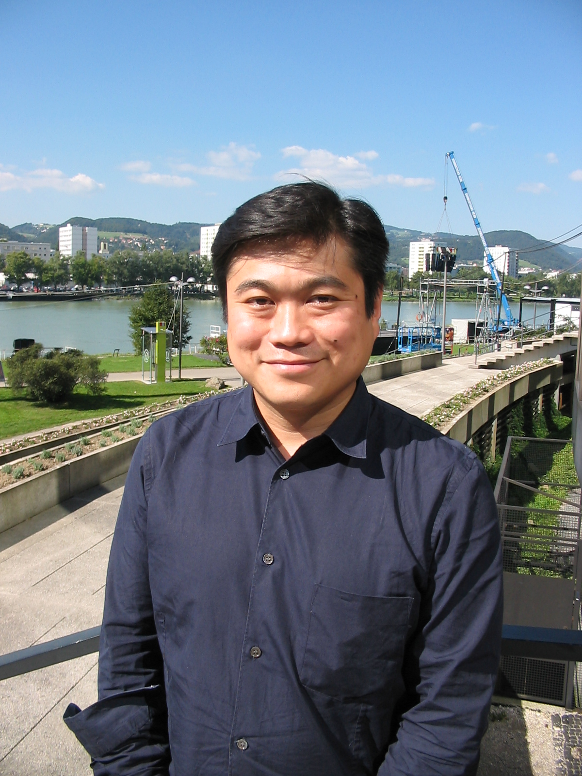 Joichi Ito at the Ars Electronica.